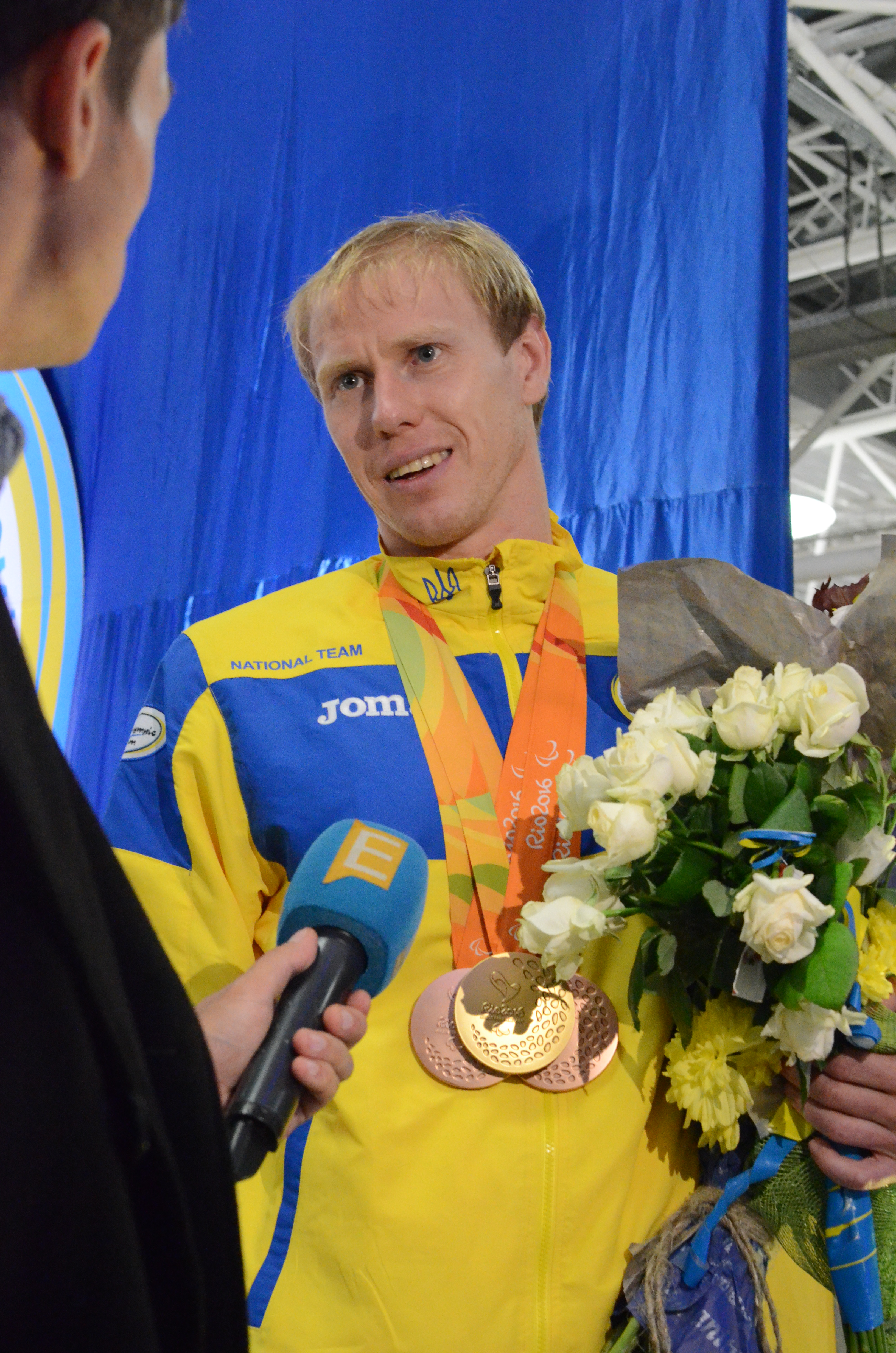 Ukrainian National Paralympic team welcomed at Boryspil (September 21, 2016)